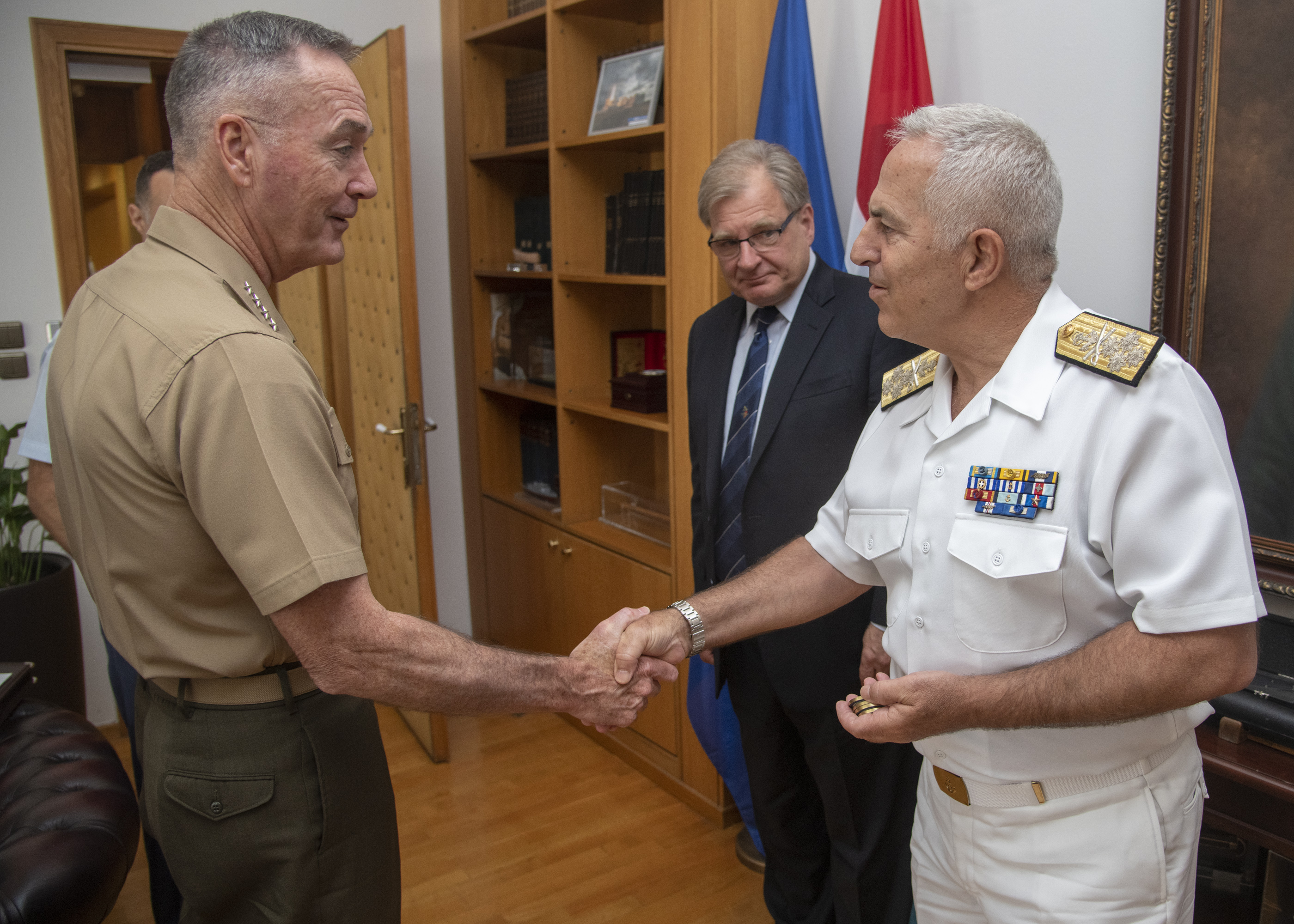 Marine Corps Gen. Joe Dunford, chairman of the Joint Chiefs of Staff, meets with Greek Navy Adm. Evangelos Apostolakis, Chief of the Hellenic National Defense General Staff, at the Ministry of Defesne in Athens, Greece, Sept. 4, 2018. (DOD photo by U.S. Navy Petty Officer 1st Class Dominique A. Pineiro)